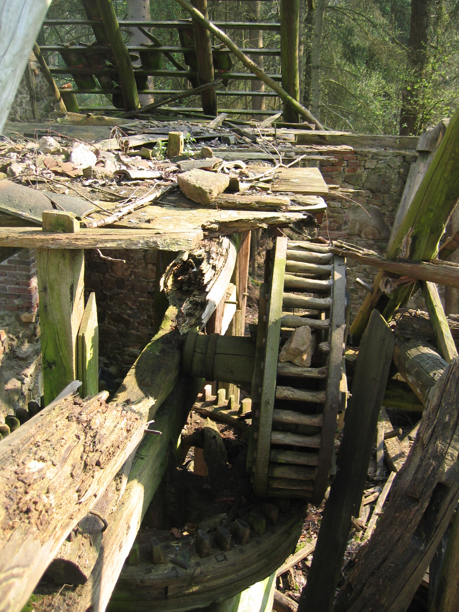 Ruins of old watermill in Bünde, District of Herford, North Rhine-Westphalia, Germany.